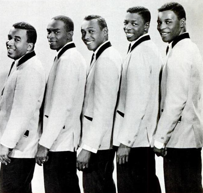 Trade ad for The Spinners's single "I'll Always Love You".To better adapt it to his respective Wikipedia article, the ad was cropped and cleaned in a graphics editing program. The original can be viewed at the source below.